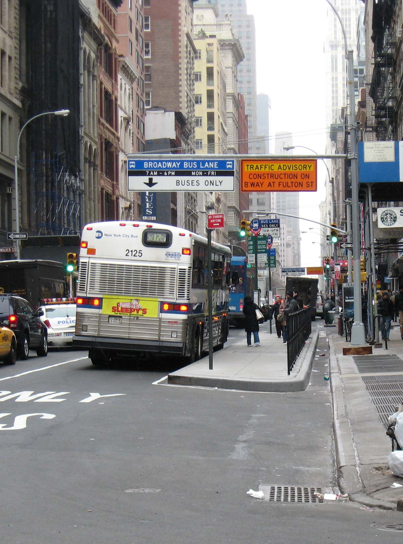 Looking south towards Walker Street at Bus bulb on Broadway below Lispenard street, on a not quite yet snowy afternoon